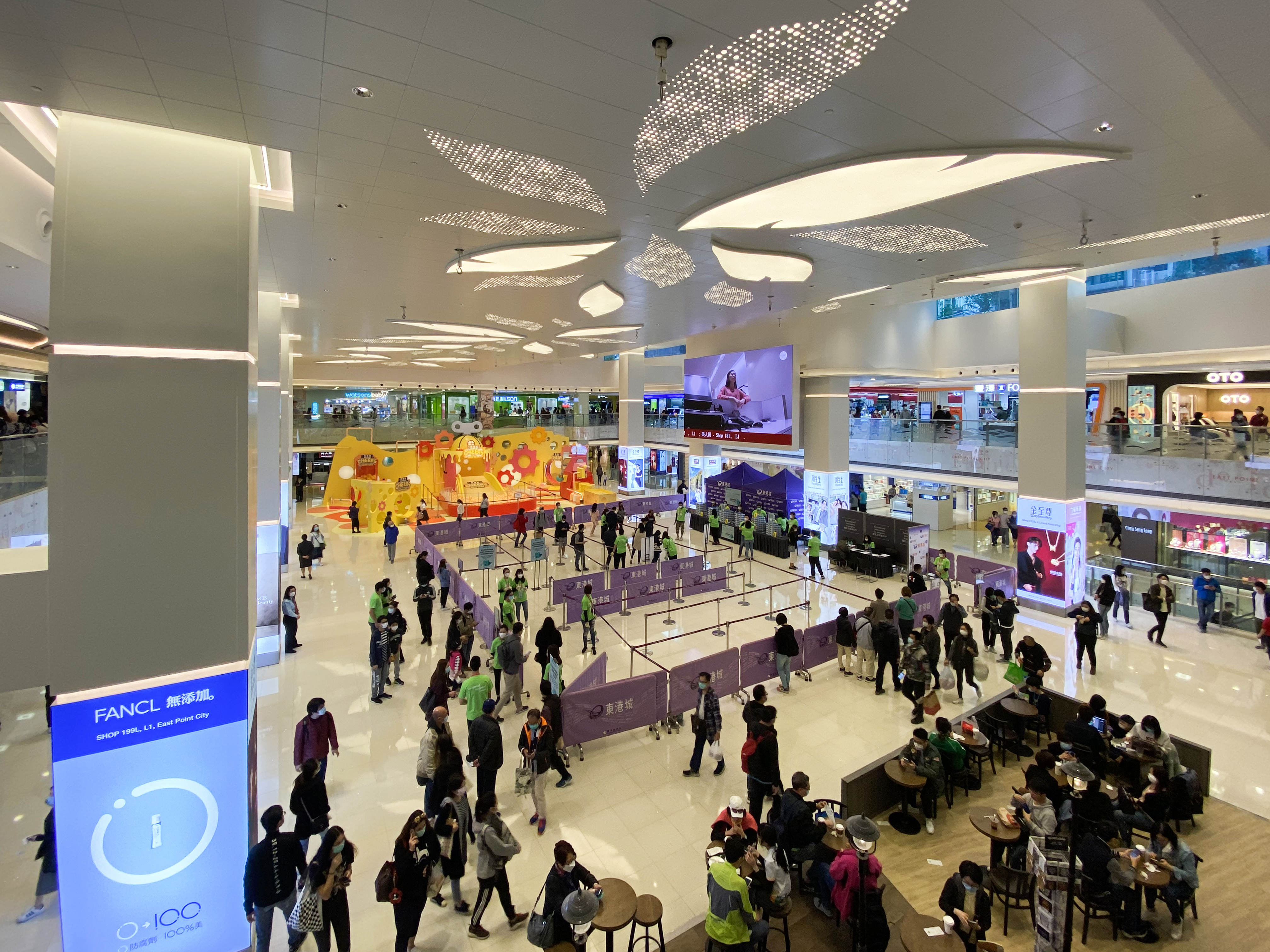 East Point City Atrium